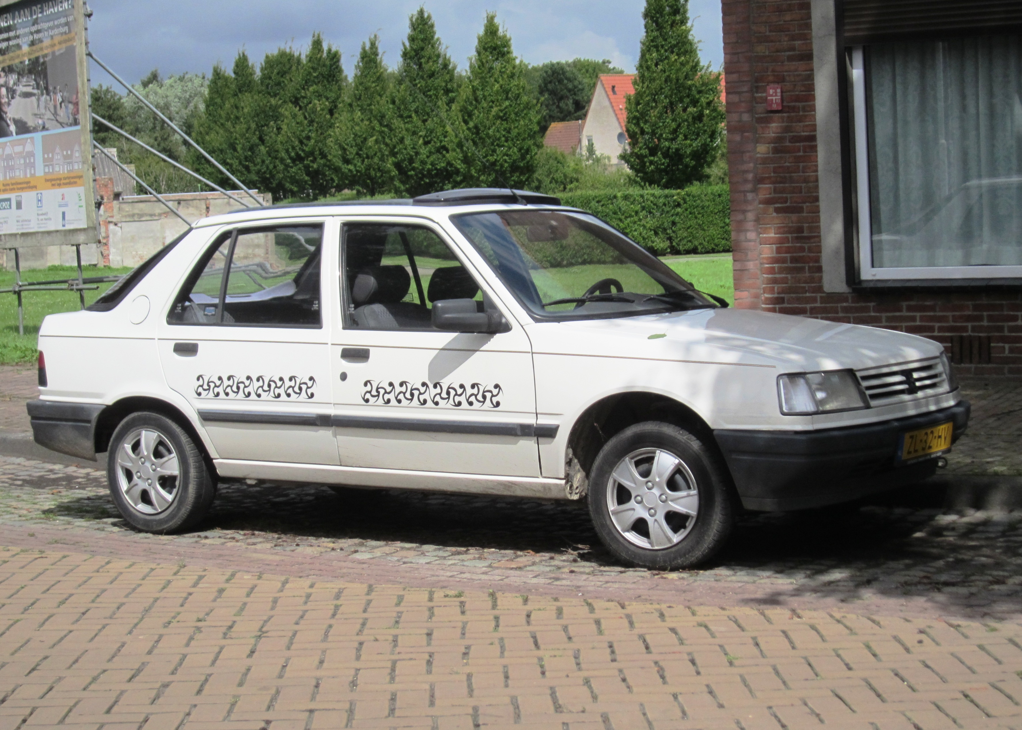 1991 Peugeot 309 in Aardenburg